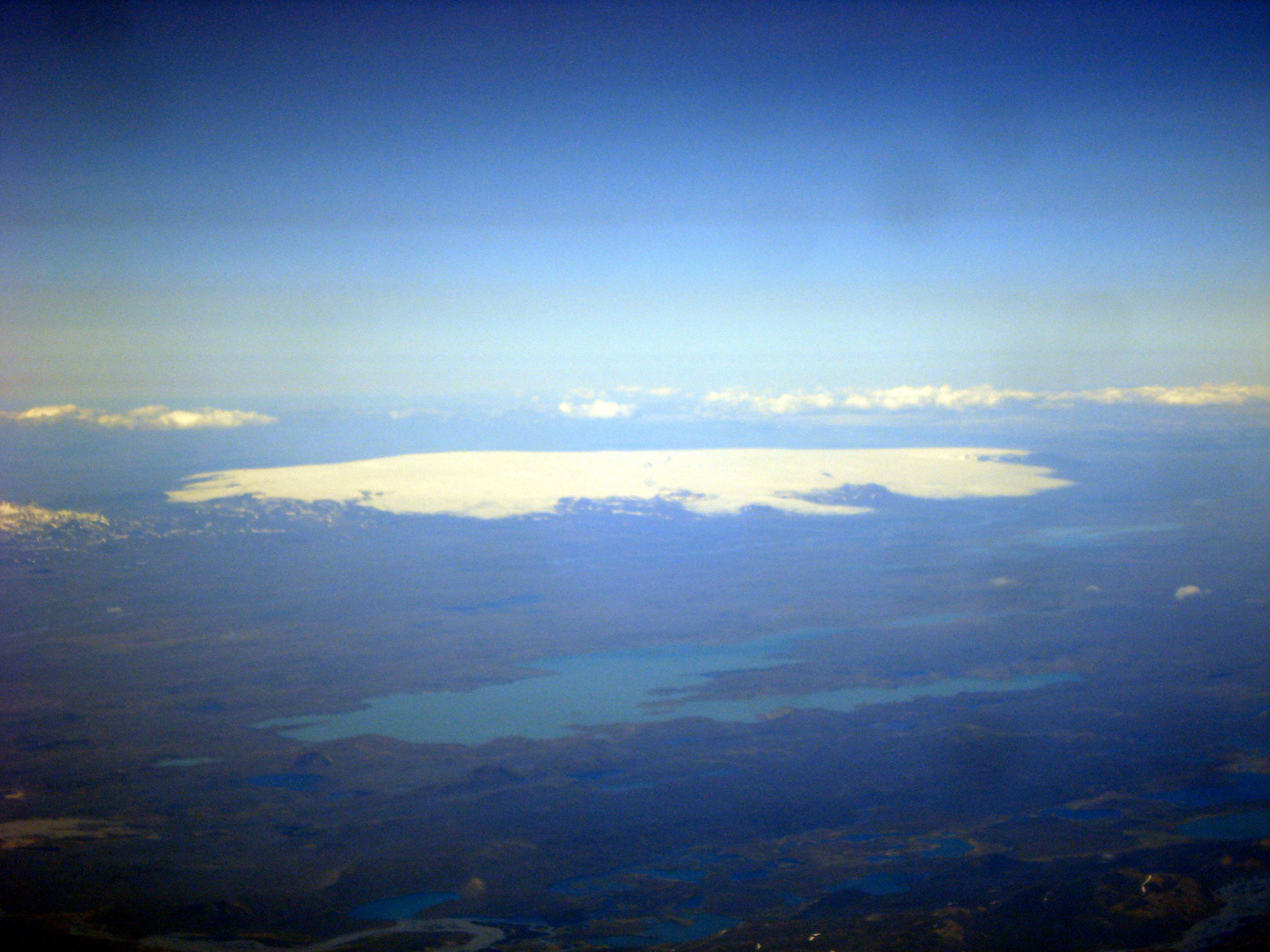 Hofsjökull glacier in Iceland; looking north